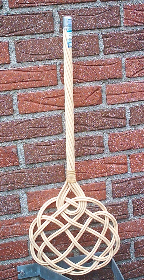 Photo of a mattenklopper (Dutch rug beater) from the Dutch Wikipedia.